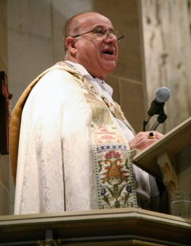 Anglican Bishop of Jerusalem Riah Hanna Abu El-Assal.